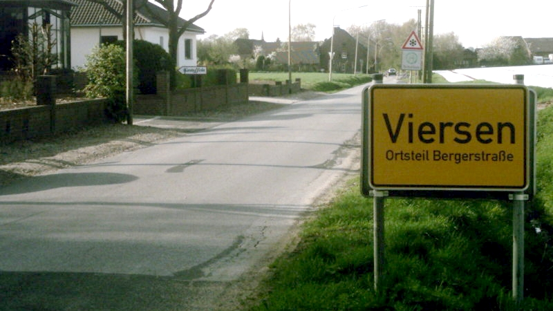 City limit sign of Bergerstraße, Viersen, Germany.